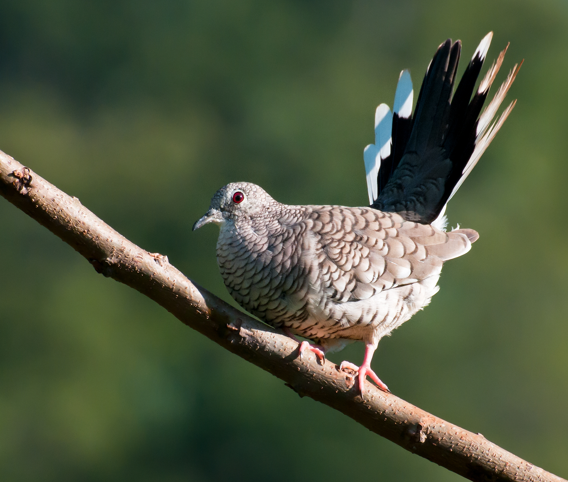 A Scaled Dove in Bonito, Mato Grosso do Sul, Brazil.